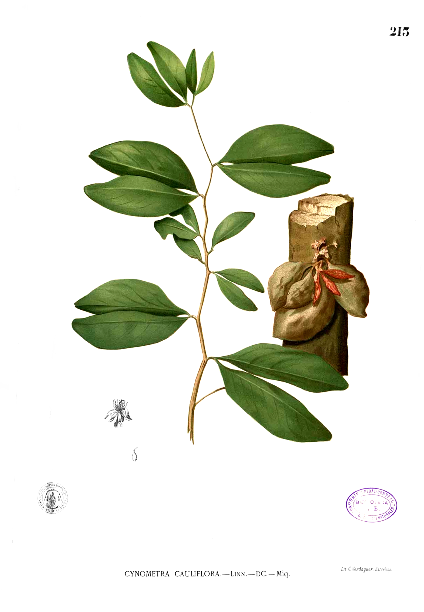 Plate from book